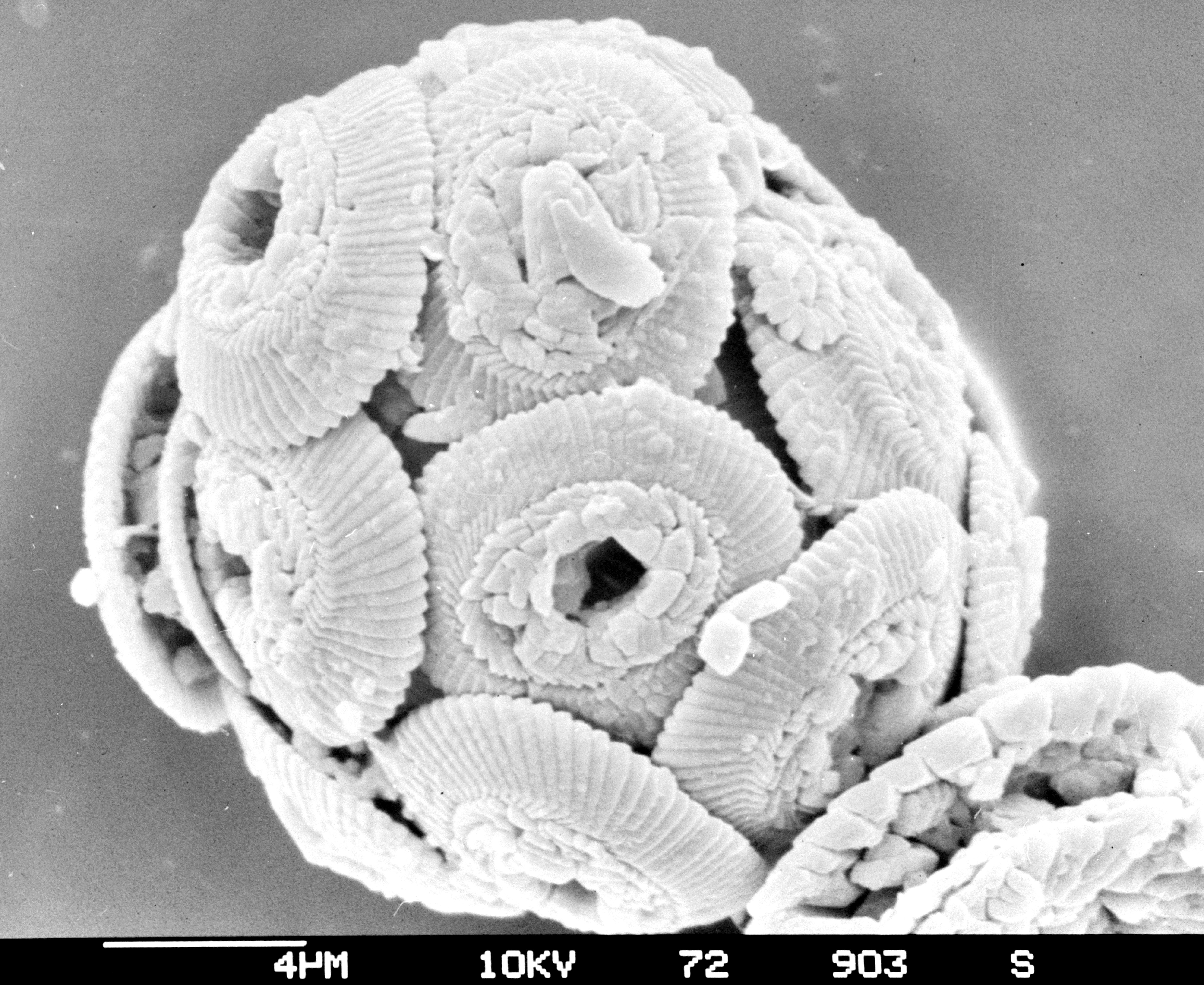 Microfossils from marine sediments - Coccosphaera